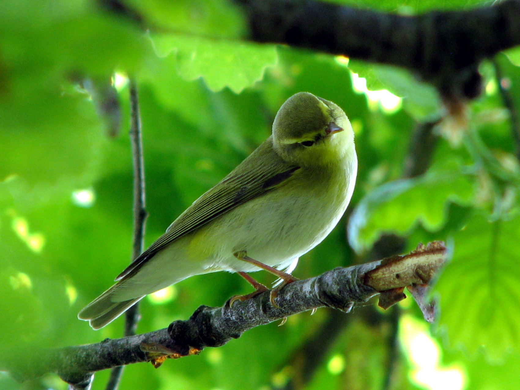 Wood warbler